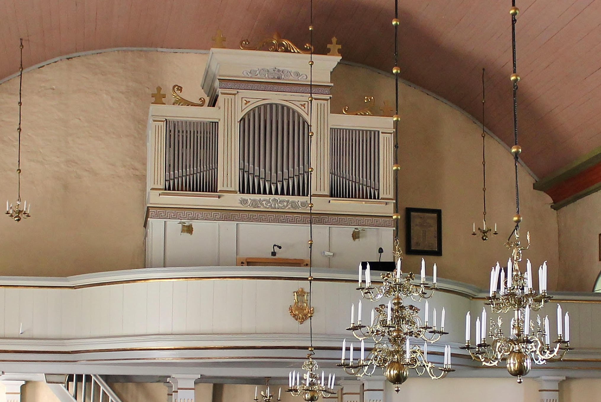 Glömminge Church.The organ